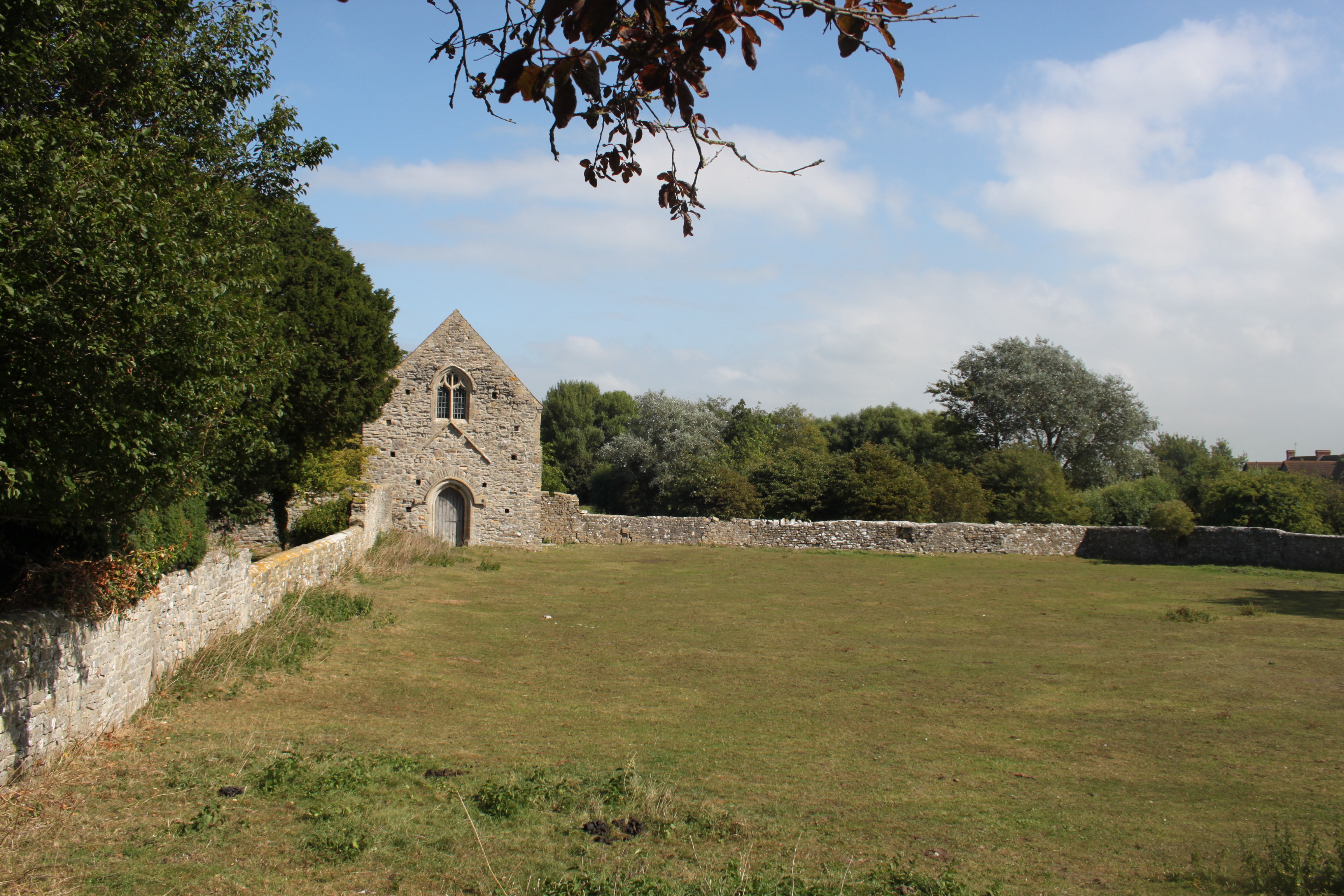 East cloister wall